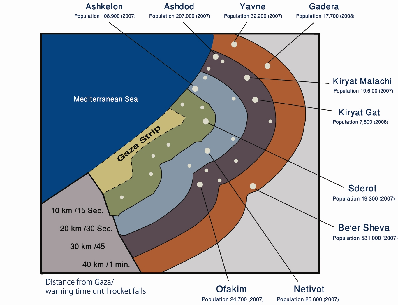 Rocket and Population Map, 21 Jan 2009 Description by Author This map shows the rocket ranges as they relate to the population of southern Israel, and how much time people have to take cover given the distance the rocket travels. Those living in the 10 kilometer range have 15 seconds to find safety once the alarm sounds, those in the 20 km range have 30 seconds, 30 km – 45 seconds, and 40 km a minute. With the increased range of the rocket fire from Gaza, nearly 1 million people, or a seventh of Israel’s population live in danger and under threat from rocket attacks. The goal of operation Cast Lead has been to reduce the number of rocket attacks against the inhabitants of southern Israel.